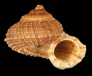 Photo of an apertural view of a holotype shell of Abbottella calliotropis. Holotype (UF 456810), 7.5 mm width.